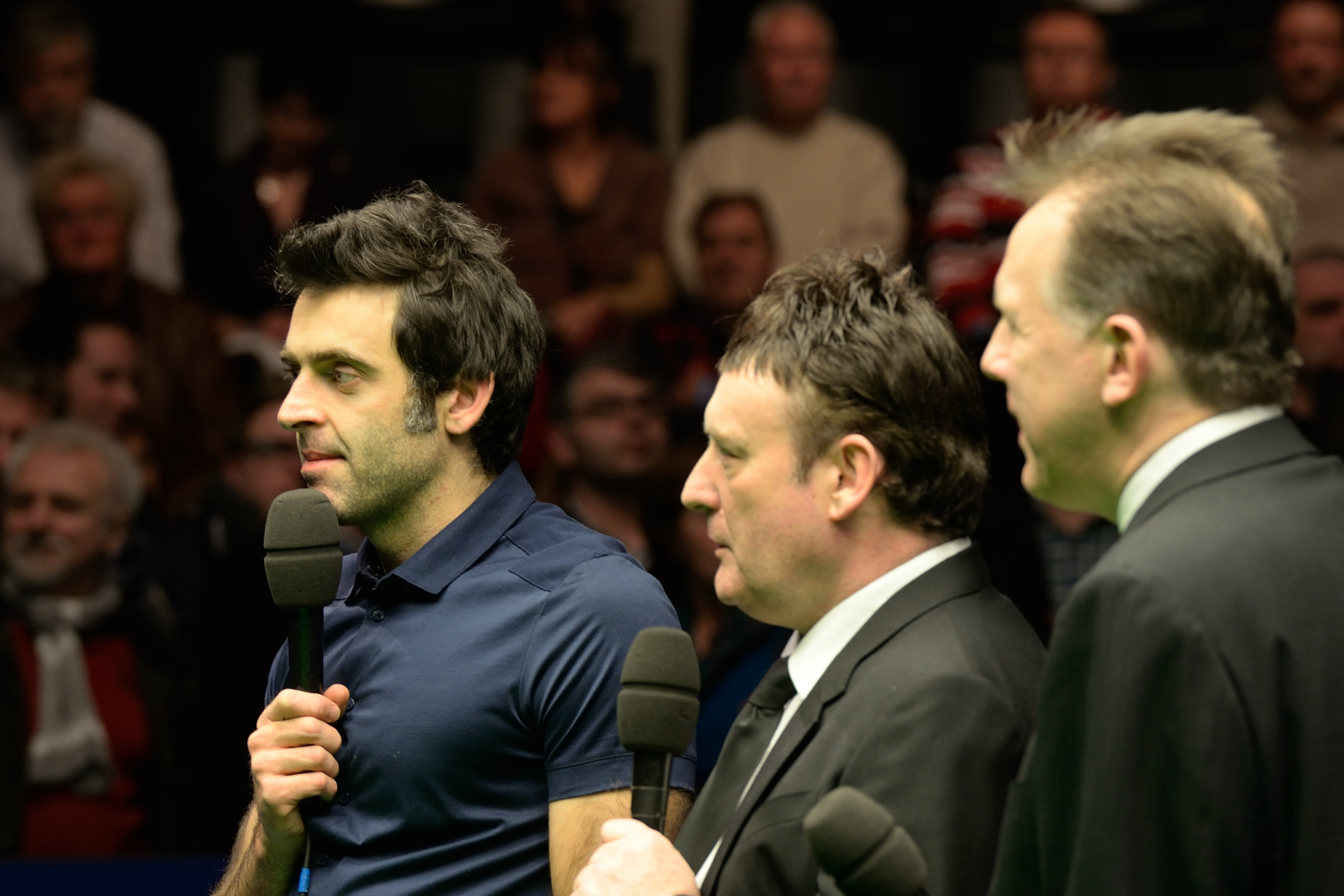 Picture taken in Berlin during the Snooker German Masters in 2015. Jimmy White, Ronnie O’Sullivan, Neal Foulds.